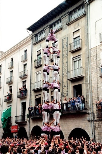 First "4 de 9 sense folre" descarregat (successfully dismantled) by the Minyons de Terrassa in the Sant Narcís Festival of Girona (Catalonia) on 25 October 1998 and the first of the 20th century, 117 years later from the last one descarregat by the Colla Vella dels Xiquets de Valls during the Santa Tecla Festival of Tarragona on September 1881.